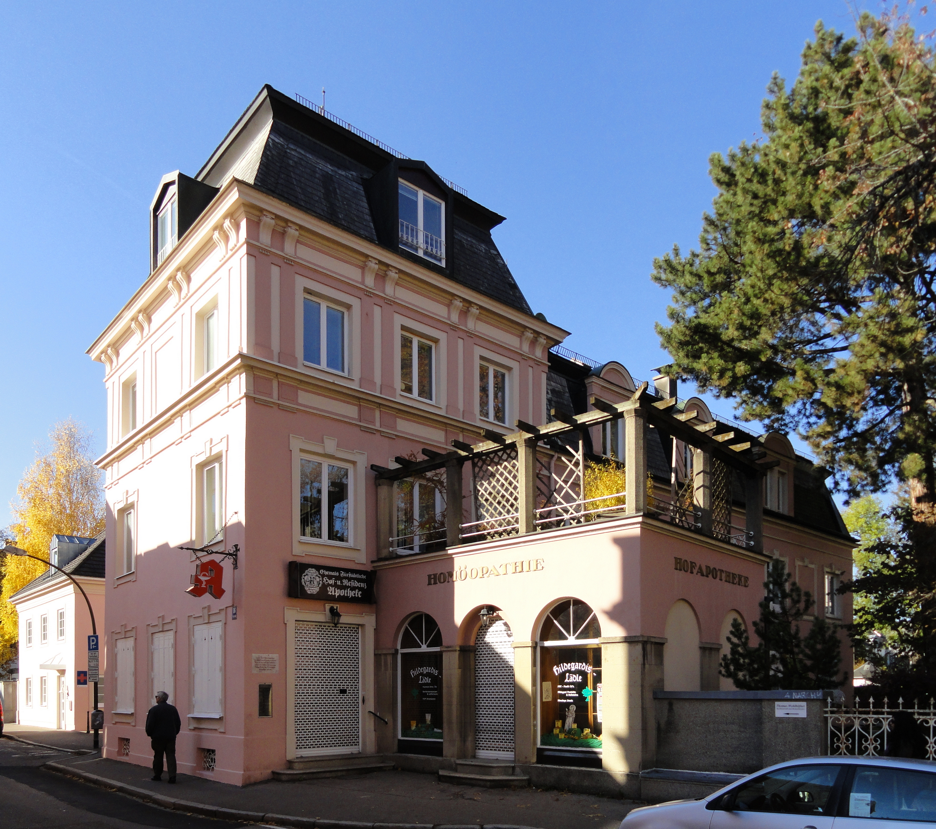 Hofapotheke in Kempten